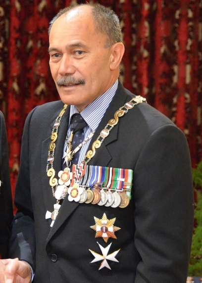 Professor Sir Murray Brennan, of United States of America, after his investiture as a Knight Grand Companion of the New Zealand Order of Merit for services to medicine, by the governor-general, Sir Jerry Mateparae, on 22 May 2015